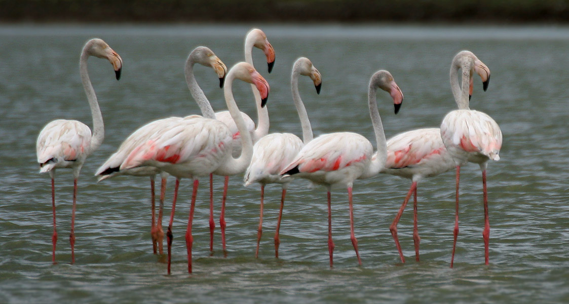 Greater Flamingo Phoenicopterus roseus - Sind: Lakka, Lakke jani, Hindi: Bog/Raaj hans, Sans: Bruhat balak, Bagg, Valiya rajahamsam, Bi: Charaj baggo, Ben: Kanmunthi, Kanthuti, Guj: Balo, Hunj, Moto hanj, Kutch: Hanj pakkhi, Mar: Rohit, Gnipankh, Pandav, Ta: Poonarai, Kizhi mooku naarai, Te: Pu konga, Samudrapu chiluka, Raja hamsa, Mal: Valiya poonara, Sinh: Siyak karaya- at Pocharam lake, Andhra Pradesh, India.